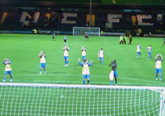 Hereford United players acknowledging the Hereford supporters at the Notts County v Hereford United match on 2 October 2007 at Meadow Lane, Nottingham. Taken from the away end after the final whistle by me